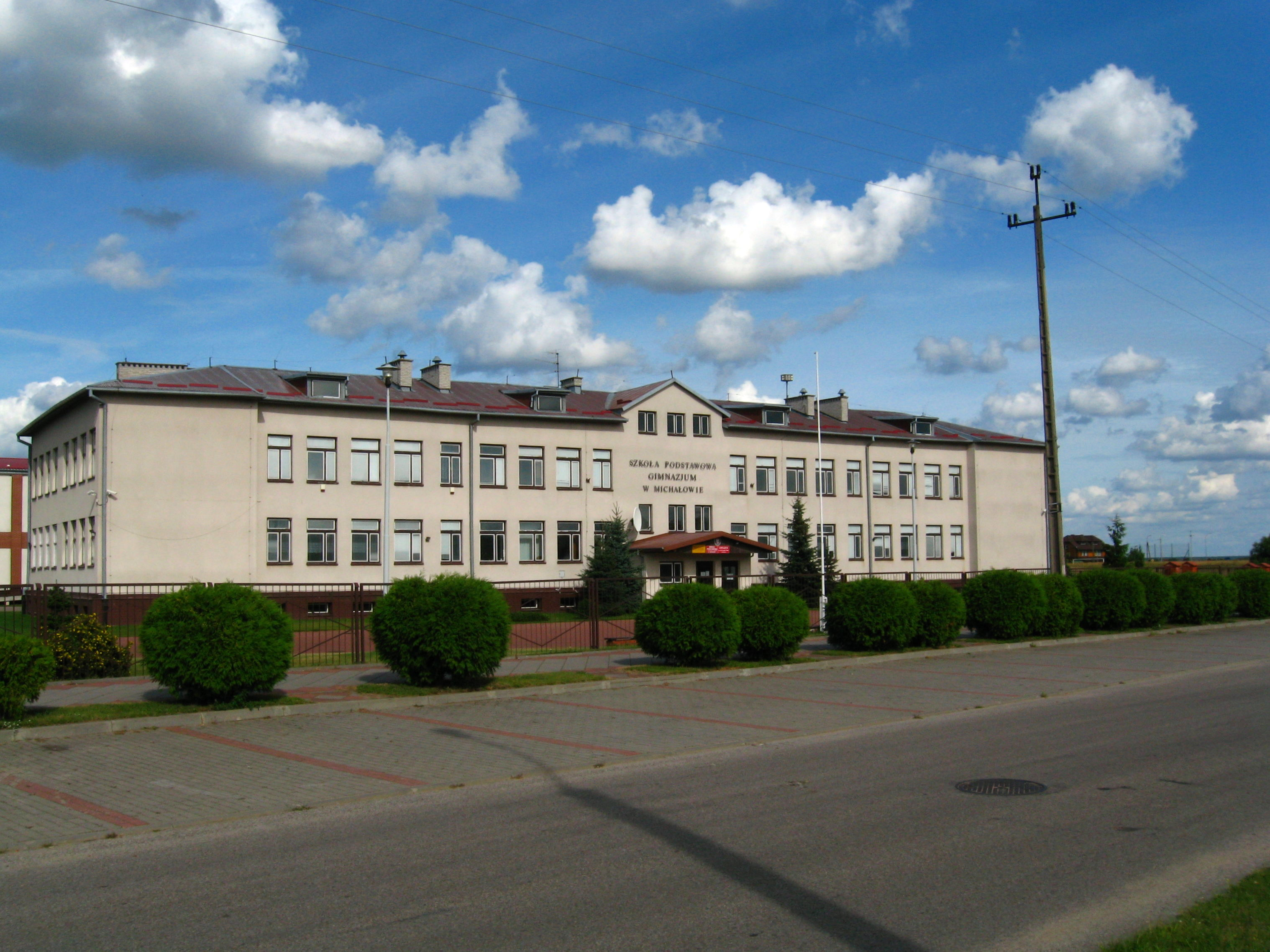 Michałowo (gmina Michałowo), Sienkiewicza 21, elementary and middle school